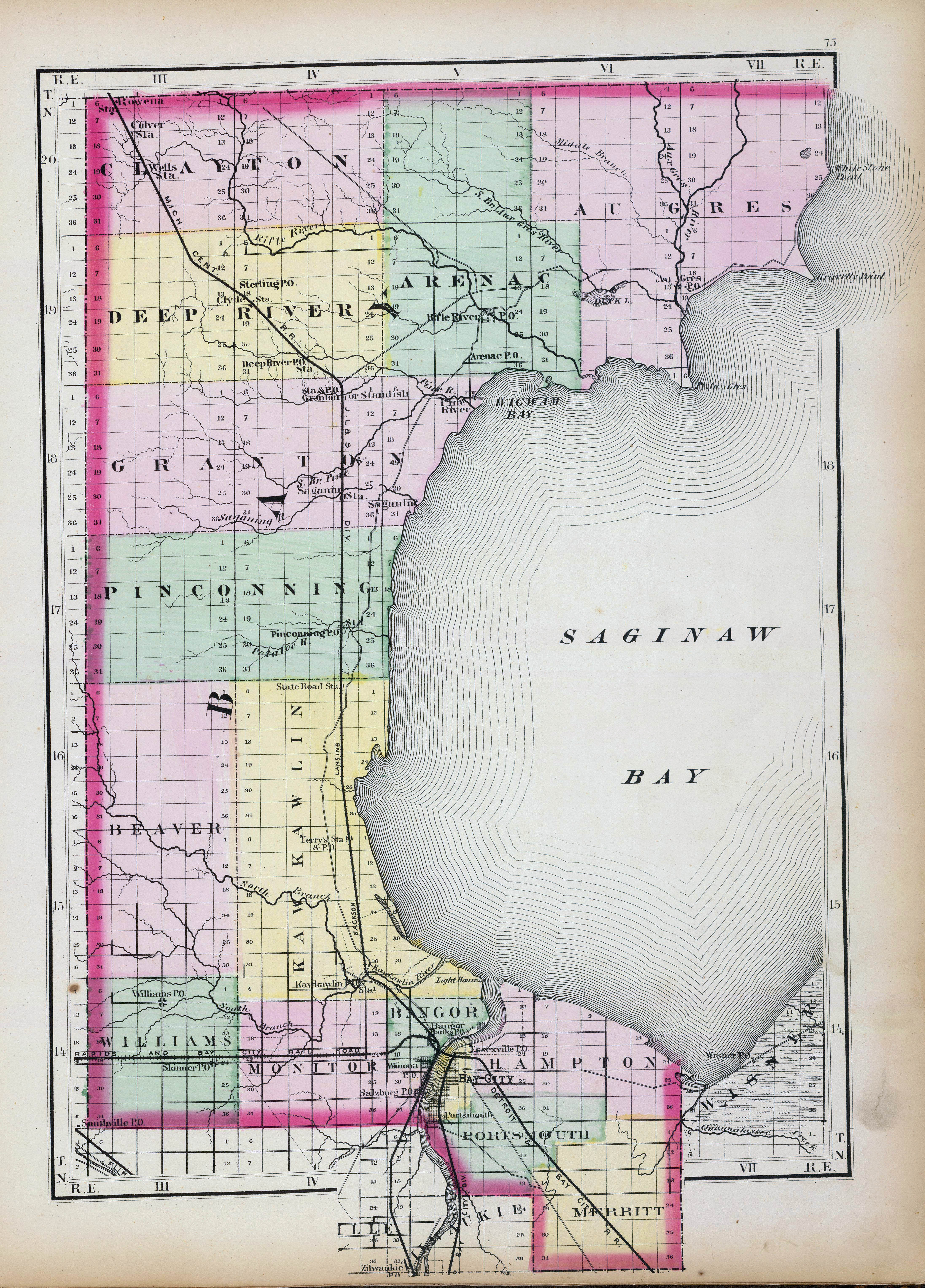 1873. The H.F. Walling Atlas. Please visit my physical visitations of these long gone places: Overnight Photo Trips Flickr data on 2011-08-29: Tags: Michigan County, H.F. Walling Map, David Rumsey Collection, 1873 Michigan License: CC BY 2.0 User: Marty Hogan